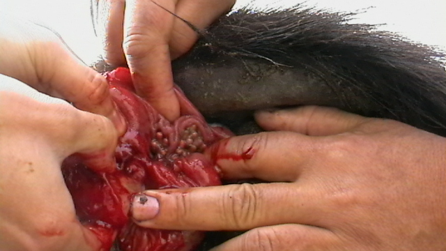 Anal prolapse, 4-days-old, in a young mule : heavy infestation with Gasterophilus haemorrhoidalis in near rectum. Walon: forboutaedje del fene pea d' l' anusse d' on moultea, dispu 4 djoûs: toplin des waerbeas del sôre Gasterophilus haemorrhoidalis dins l' crås boyea, djusse astok.